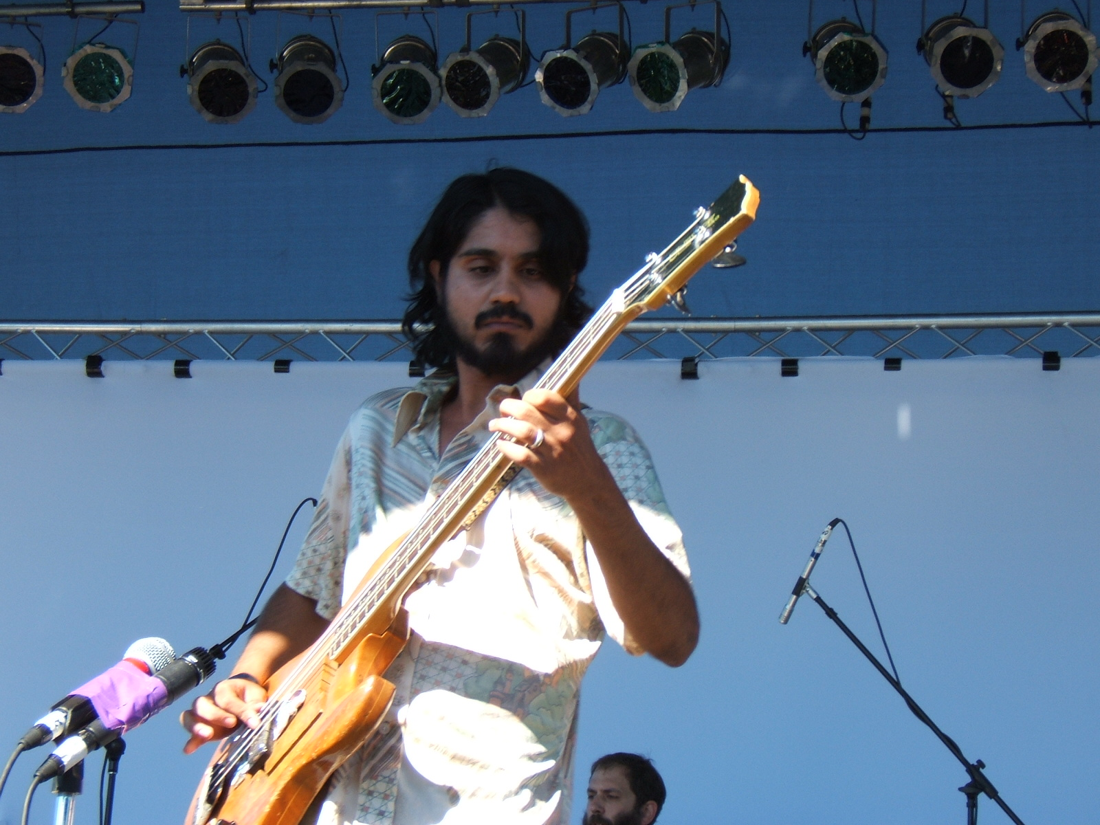 John Fernandes playing bass at Arthurfest 2005.